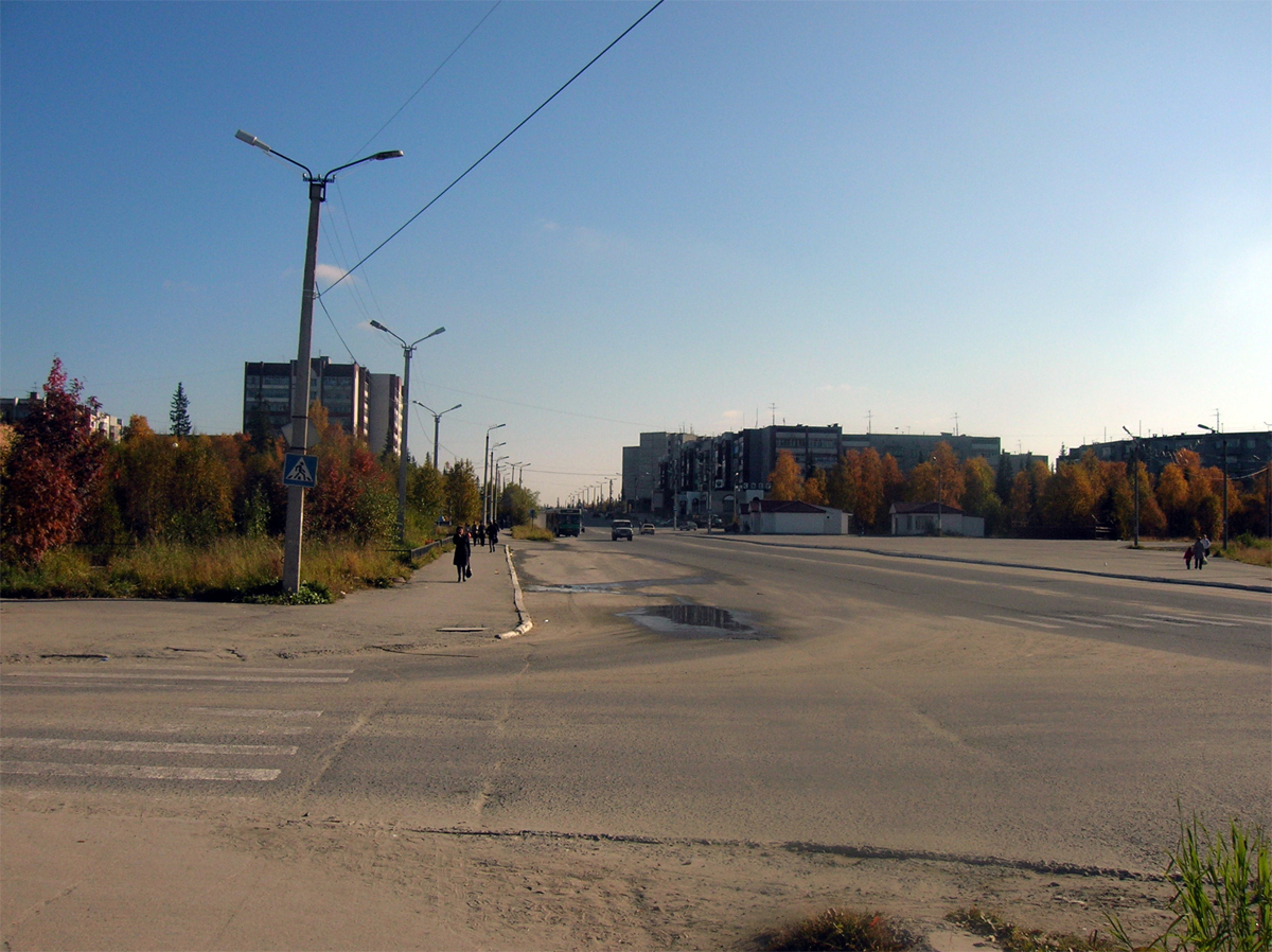 Kovdor town, Murmansk region, Russian Federation. August, 2008.